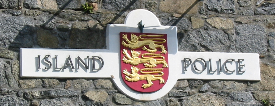 Sign on police headquarters, Guernsey